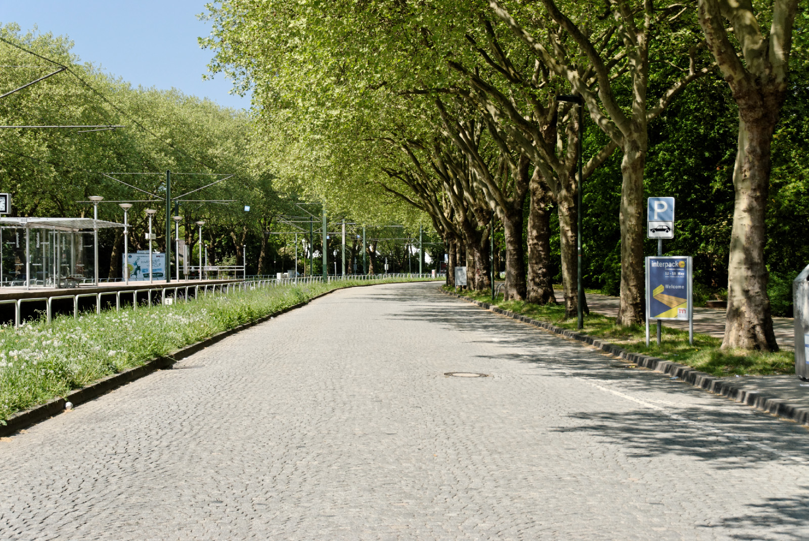 Kaiserswerther Straße in Düsseldorf-Golzheim, Germany This is a photograph of an architectural monument.